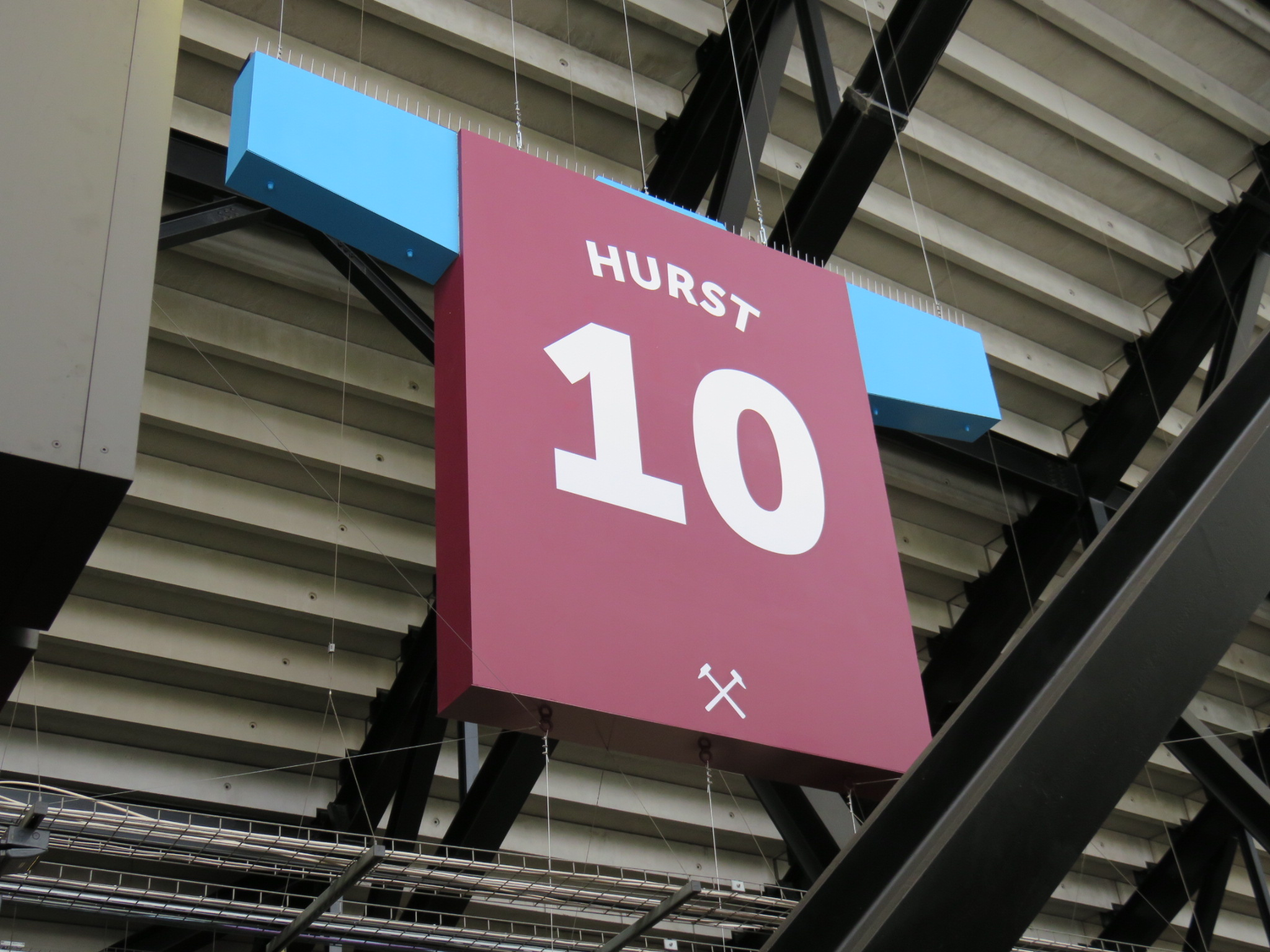 A large model shirt bearing Hurst's name hanging at The Olympic Stadium, London.